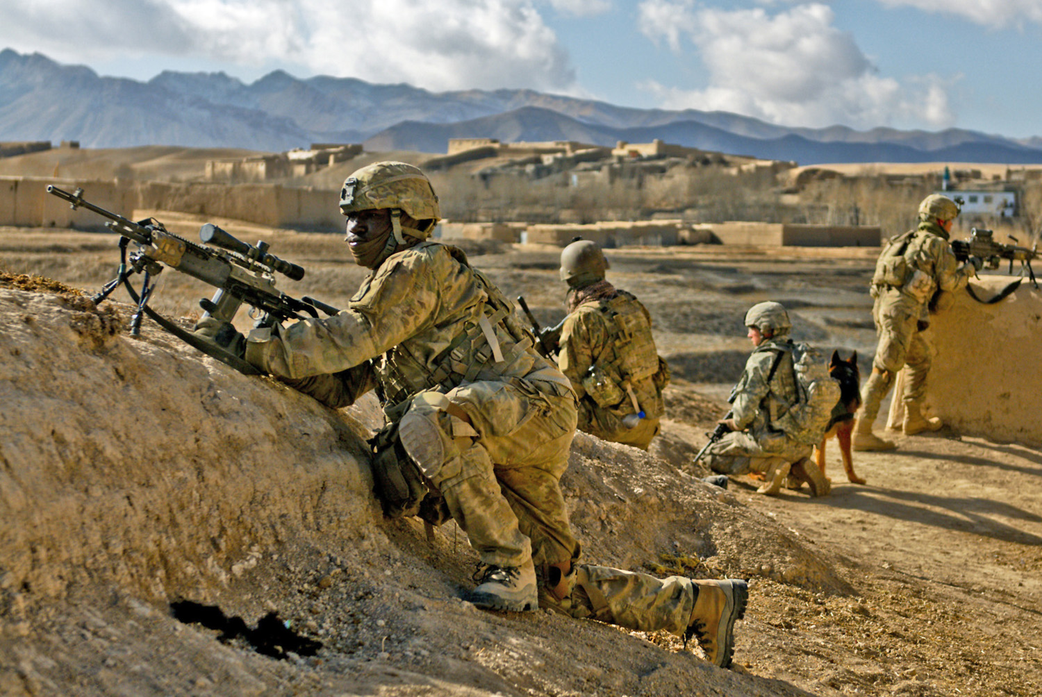 U.S. Army Pfc. Ryan B. Stuart of Brooklyn Park, Minn., assigned to Company D, 2nd Battalion, 30th Infantry Regiment, 4th Brigade Combat Team, 10th Mountain Division, Task Force Storm, provides security for Afghan National Security Forces in Kharwar District Jan. 11.